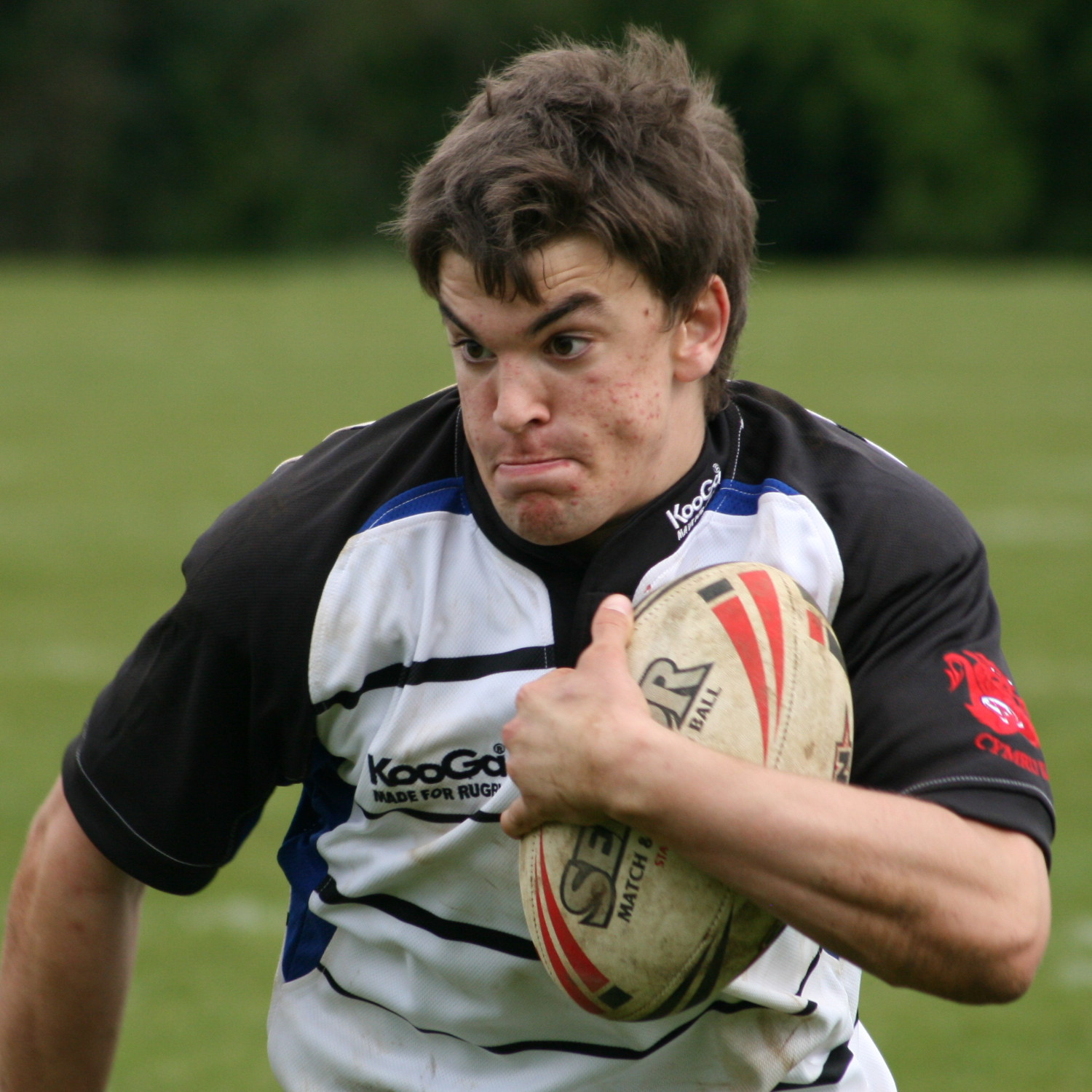 Eliott Kear